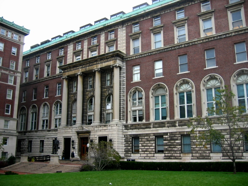 Columbia Journalism School building; photo by C. Szabla